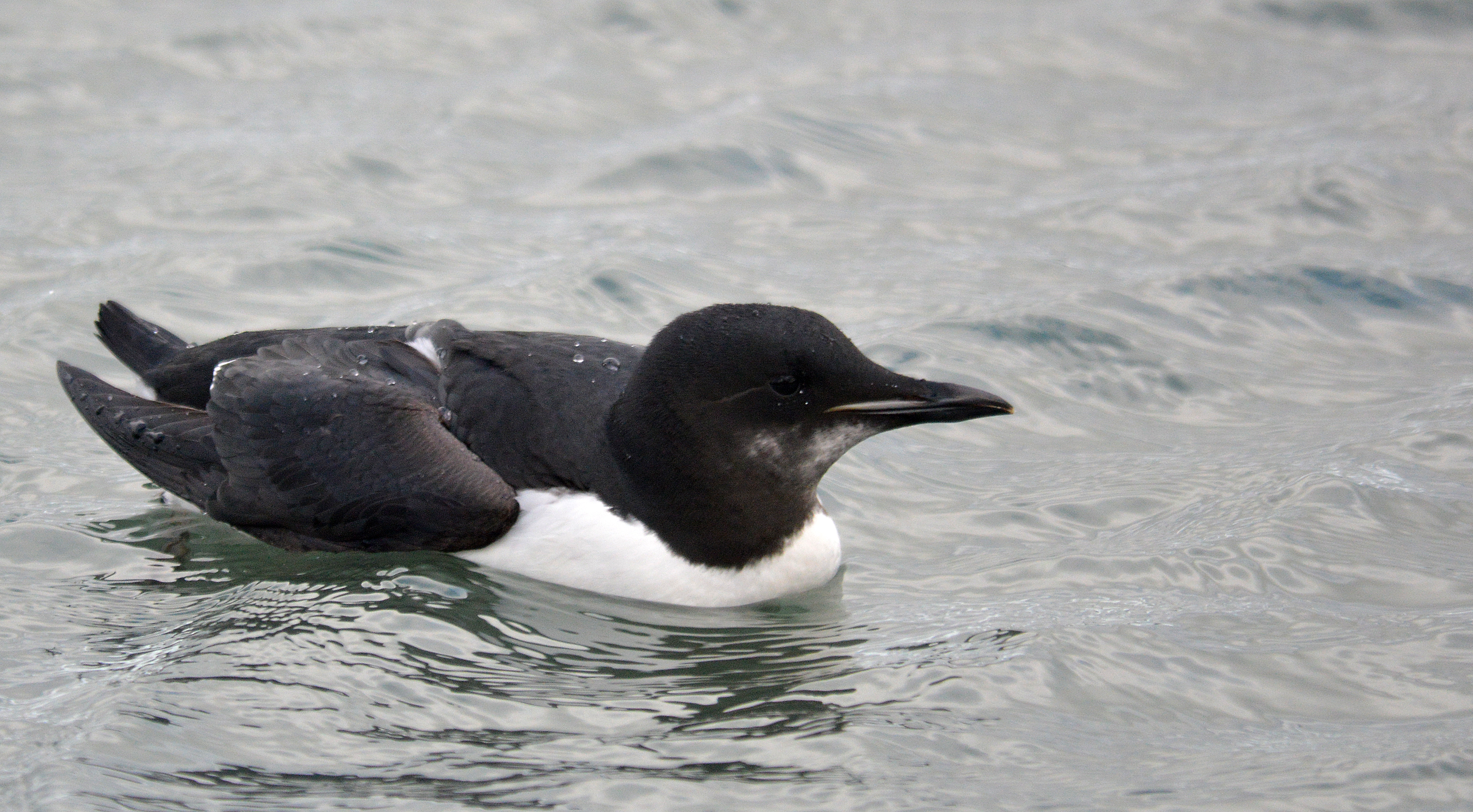 Taken in Dorset. No descripition from me as the RSPB haven't registerd this bird but all I know is that this bird is a MEGA on Bird Guides and its the only one in the UK!! My other websites are